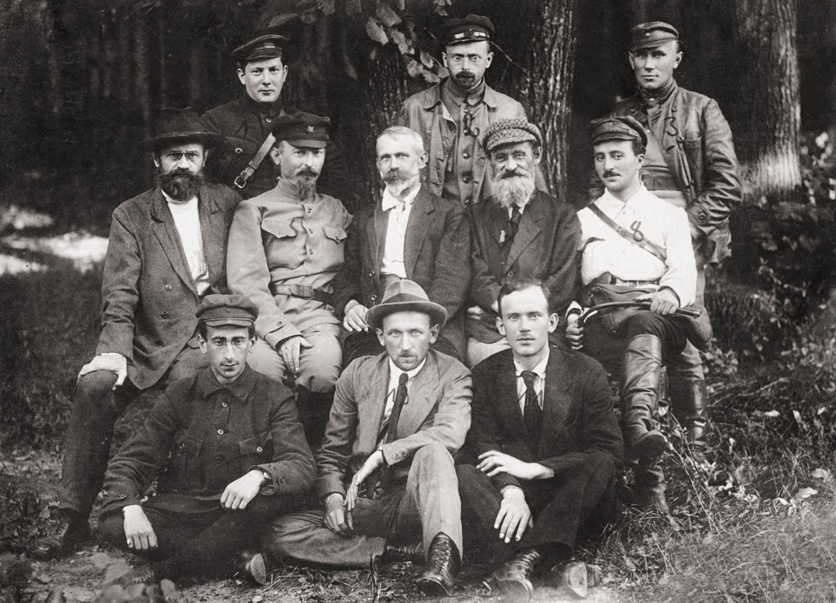 Polrewkom puppet government established by Soviets on July 30, 1920 during Soviet invasion of Poland (Polish-Soviet War) with Julian Marchlewski as a head. After Soviet defeat in August 1920 dissolved. In center left to right: Feliks Dzierżyński, Julian Marchlewski, Feliks Kon)